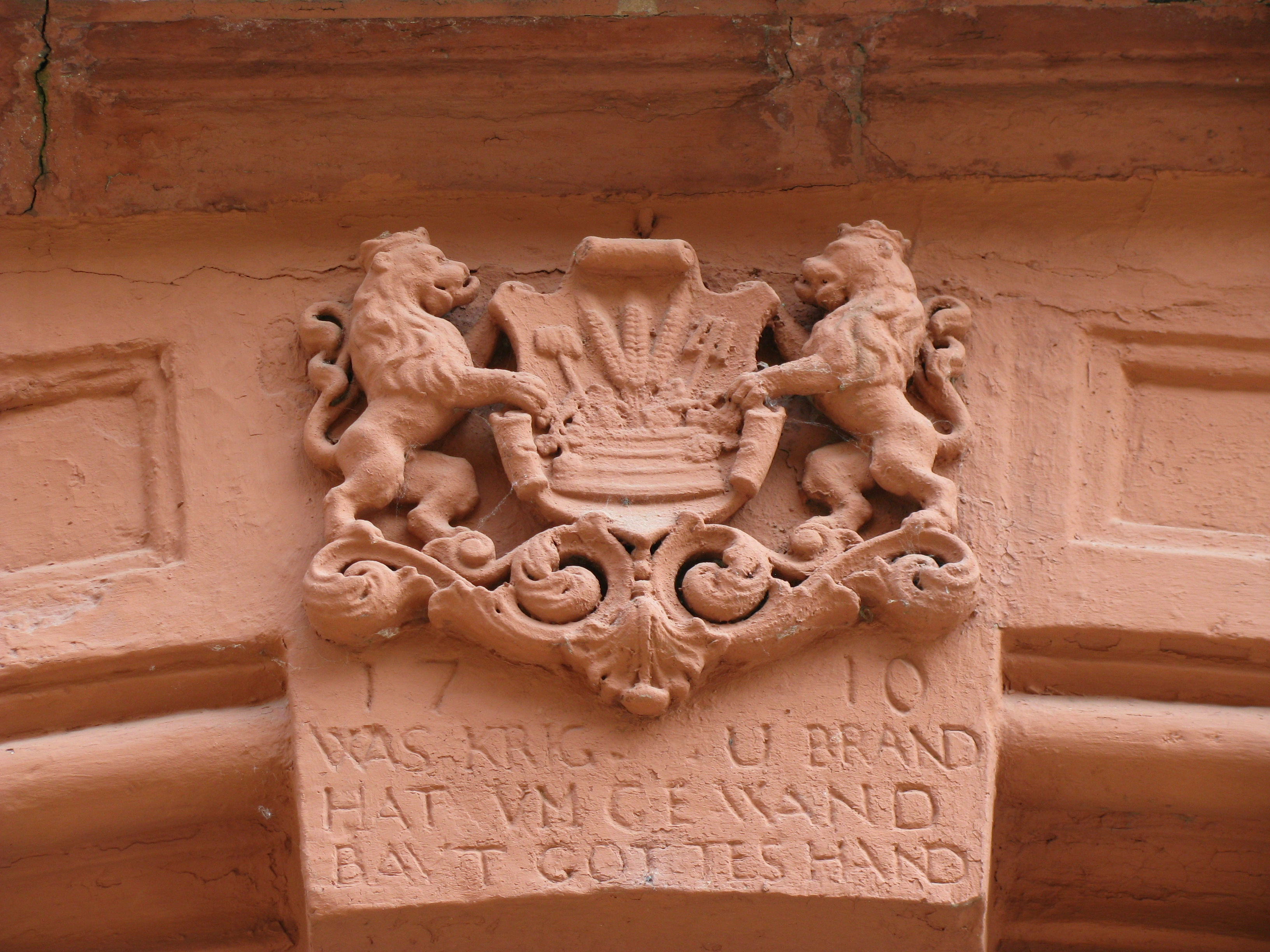 Inscription on a house in Speyer, Johannesstrasse, referring to the destruction of the city in the 17th. century: WAS KRIG U BRAND HAT UMGEWAND BAUT GOTTES HAND (What war and fire has destroyed is (re-)built by God's hand.